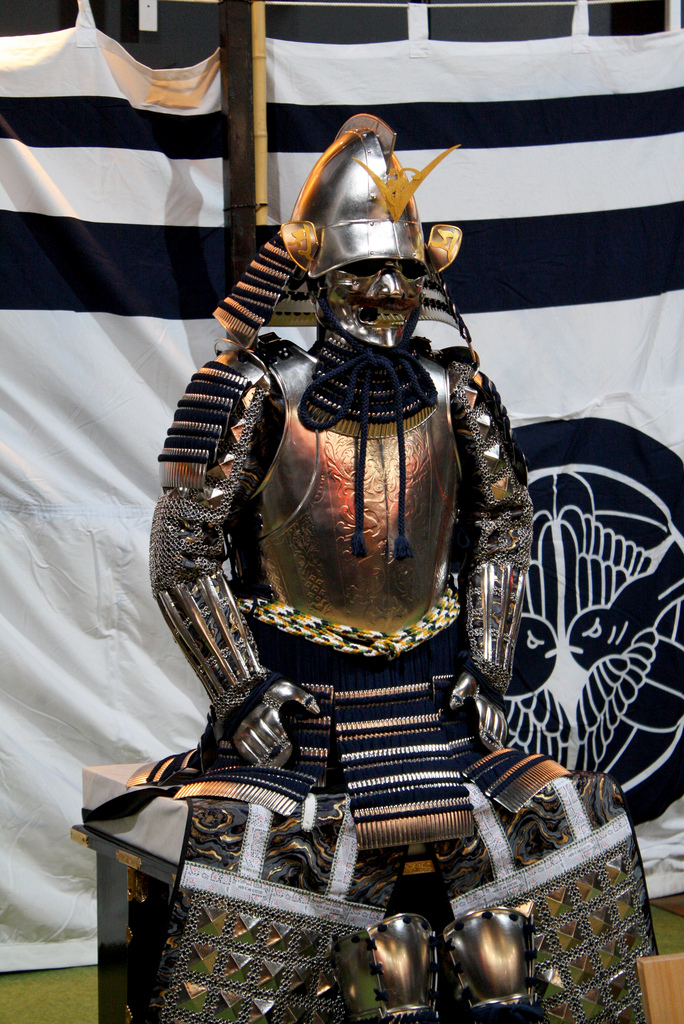 Koei's DAY1 of TGS 2009.Uesugi's Kenshin armour. aka Kenshin Uesugi.